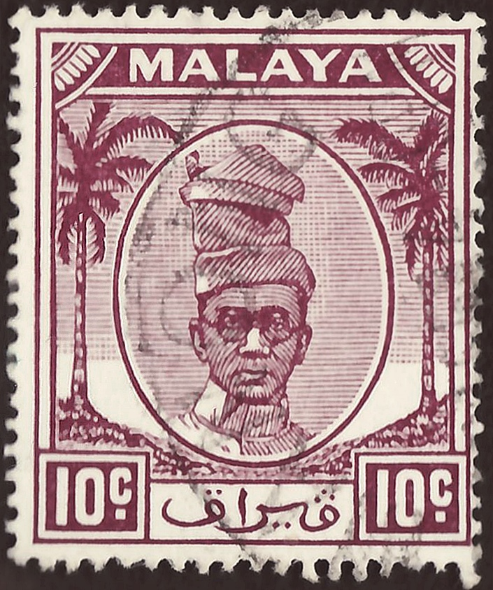 Stamp of Perak (one of the former Federated Malay States); 1950; definitive stamp of the so-called "Coconut issue"; stamp with a portrait of Sultan Yussuf Izzuddin Shah ibni Al-marhum Sultan Abdul Jalil Karamatullah Nasiruddin Mukhataram Shah Radziallah (1890—1963) in oval flanked by two coconut palms; The Sultan wears the tall white Tengkolok of the Sultan of Perak. Special features of this stamp: a) Dashed background lines around headdress to create a luminous aura around the head.; b) A wider gap between the medallion rim and the background lines within the medallion to give more of the three-dimensional relief as characteristic of a real medallion. Stamp: Michel: No. 89; Yvert et Tellier: No. 87; Scott No. 111 Color: brownish dark purple to violet Watermark: Perak No. 3 (multiple St.Edwards' crown over convoluted character "CA") Nominal value: 10 C (Cents) Postage validity: from 17 August 1950 until ? (...to 1957 ?) Stamp picture size (printed area): 19.0 x 22.5 mm